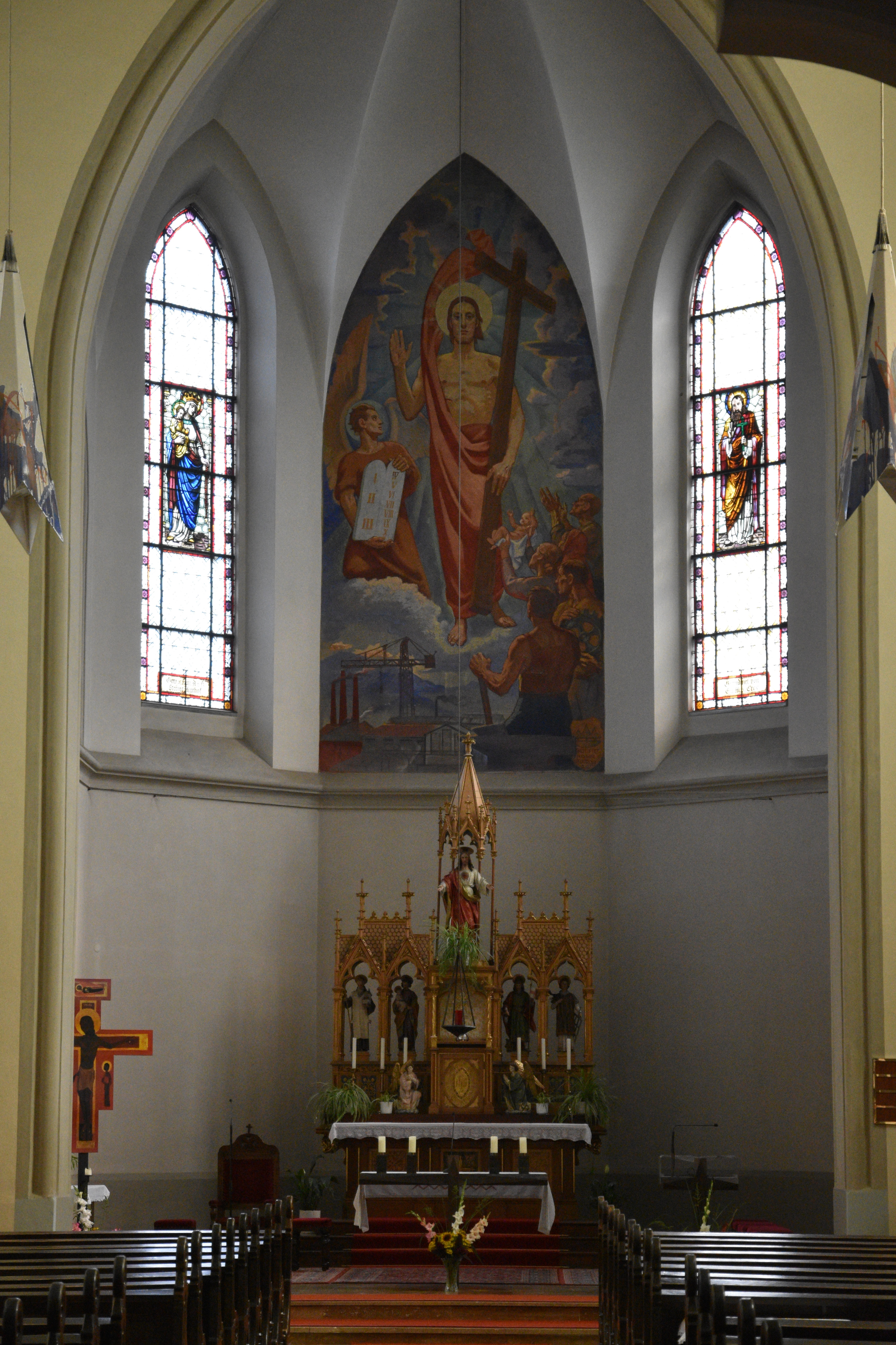 Sacred Heart Church (Zeltweg) - Interior